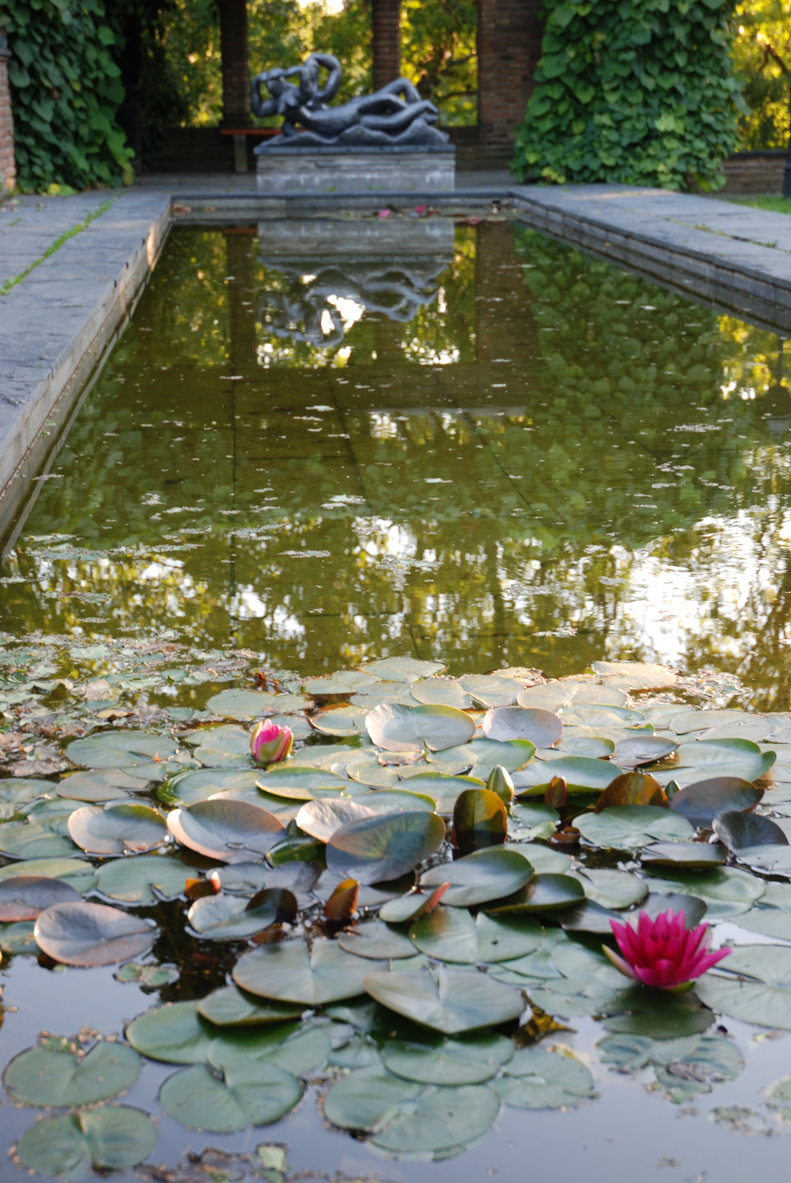 Marabouparken, dammen med Undinerna av Henri Laurens i bakgrunden